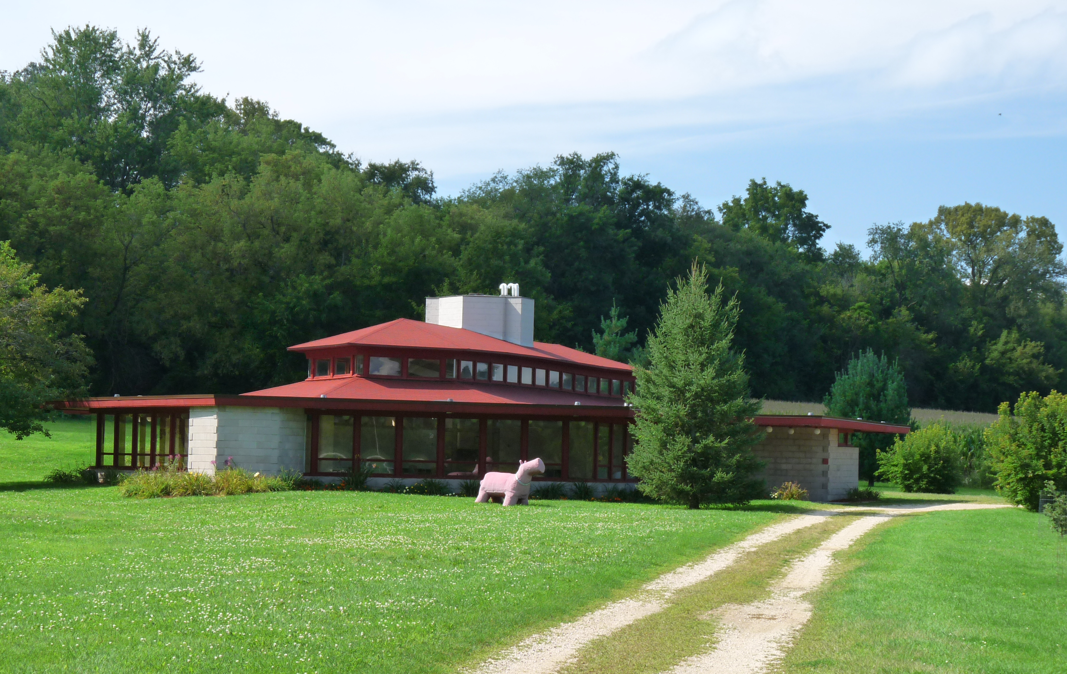 The Wyoming Valley School in southwestern Wisconsin was designed by Frank Lloyd Wright and built in 1957, a two-room school in the valley where Wright grew up.